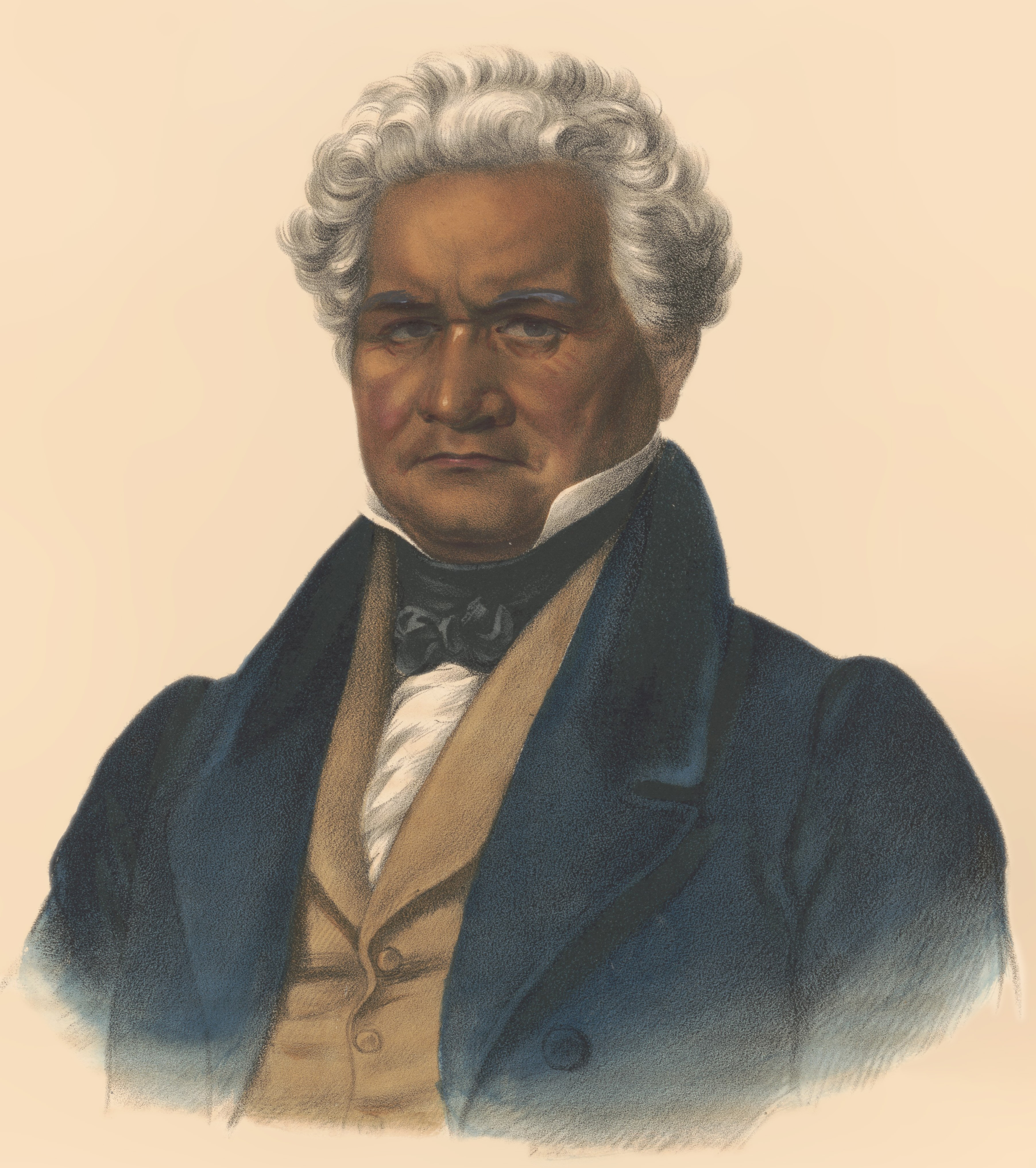 Portrait of Major Ridge by Charles Bird King, 1838, J. T. Bowen's hand-colored lithograph after Henry Inman, Museum of Early Southern Decorative Arts ᏣᎳᎩ: ᎠᏂᏯᏩᏍᎩ ᏄᎬᏫᏳᏒ ᏣᎴᎩ